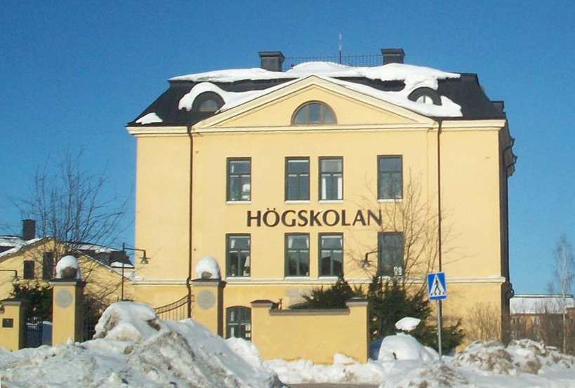 Skövde College